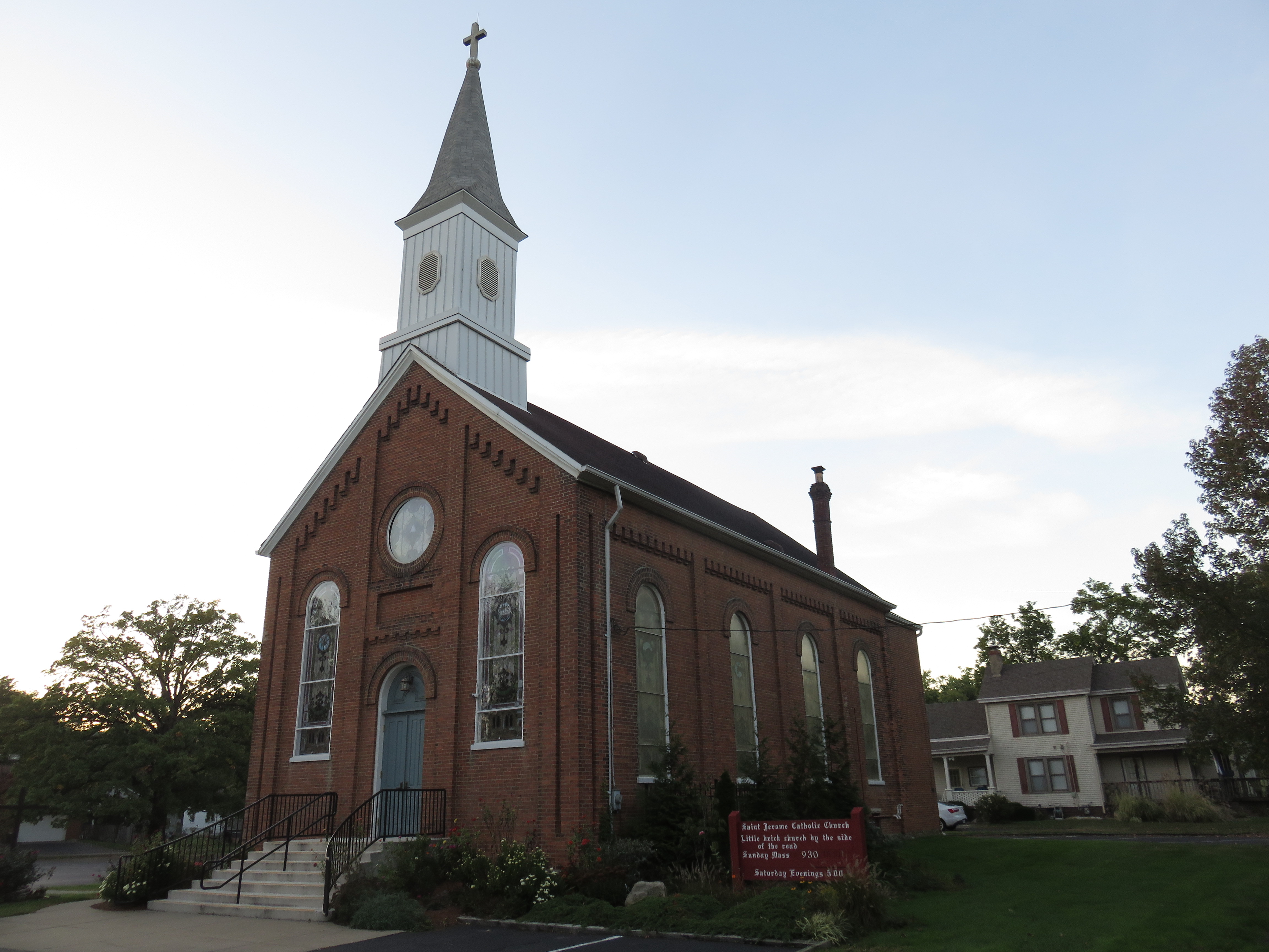 St. Jerome Catholic Church in California, Cincinnati, Ohio in 2017